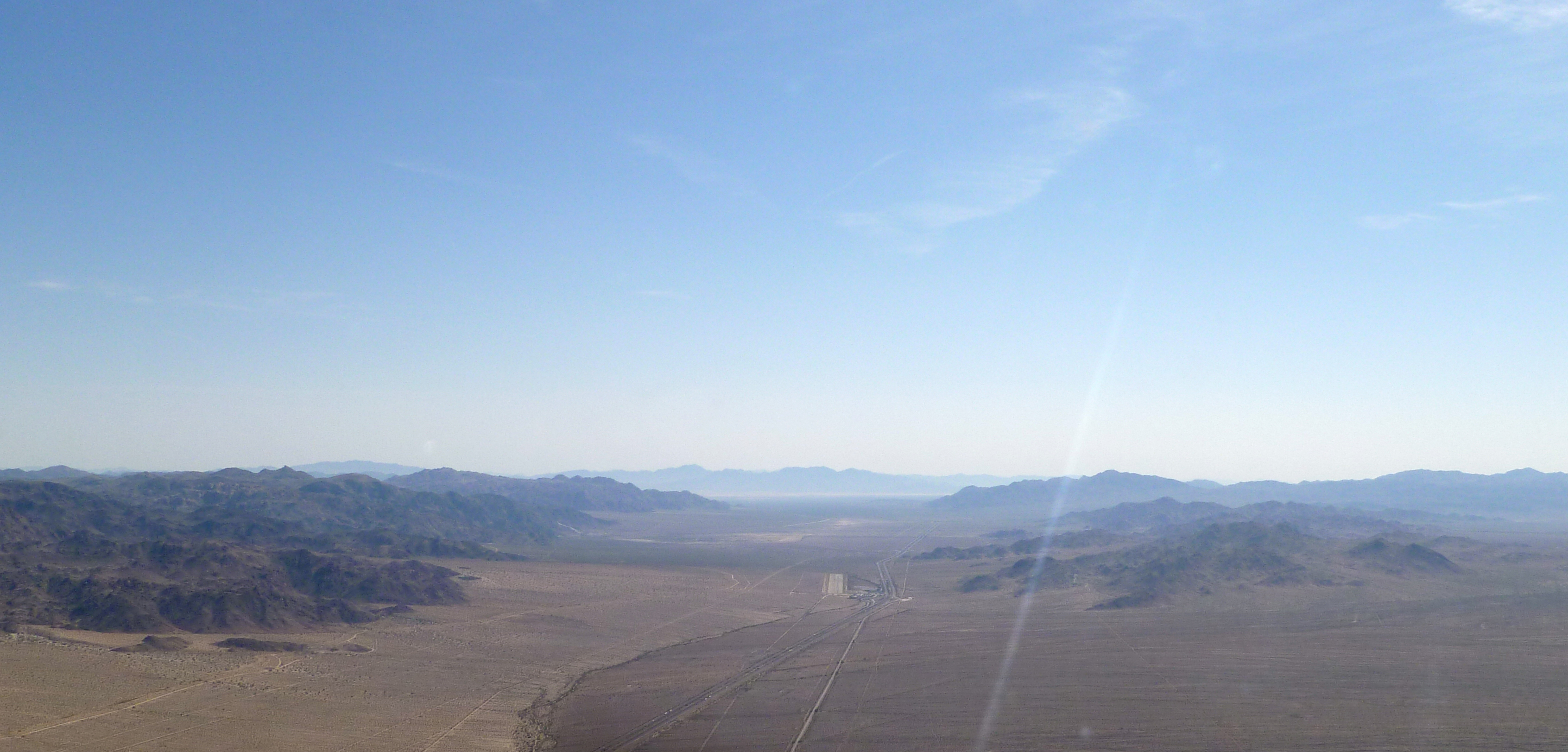 Chiriaco Summit Airport as seen from the cockpit of an aircraft approaching from the West. Interstate 10 is visible.